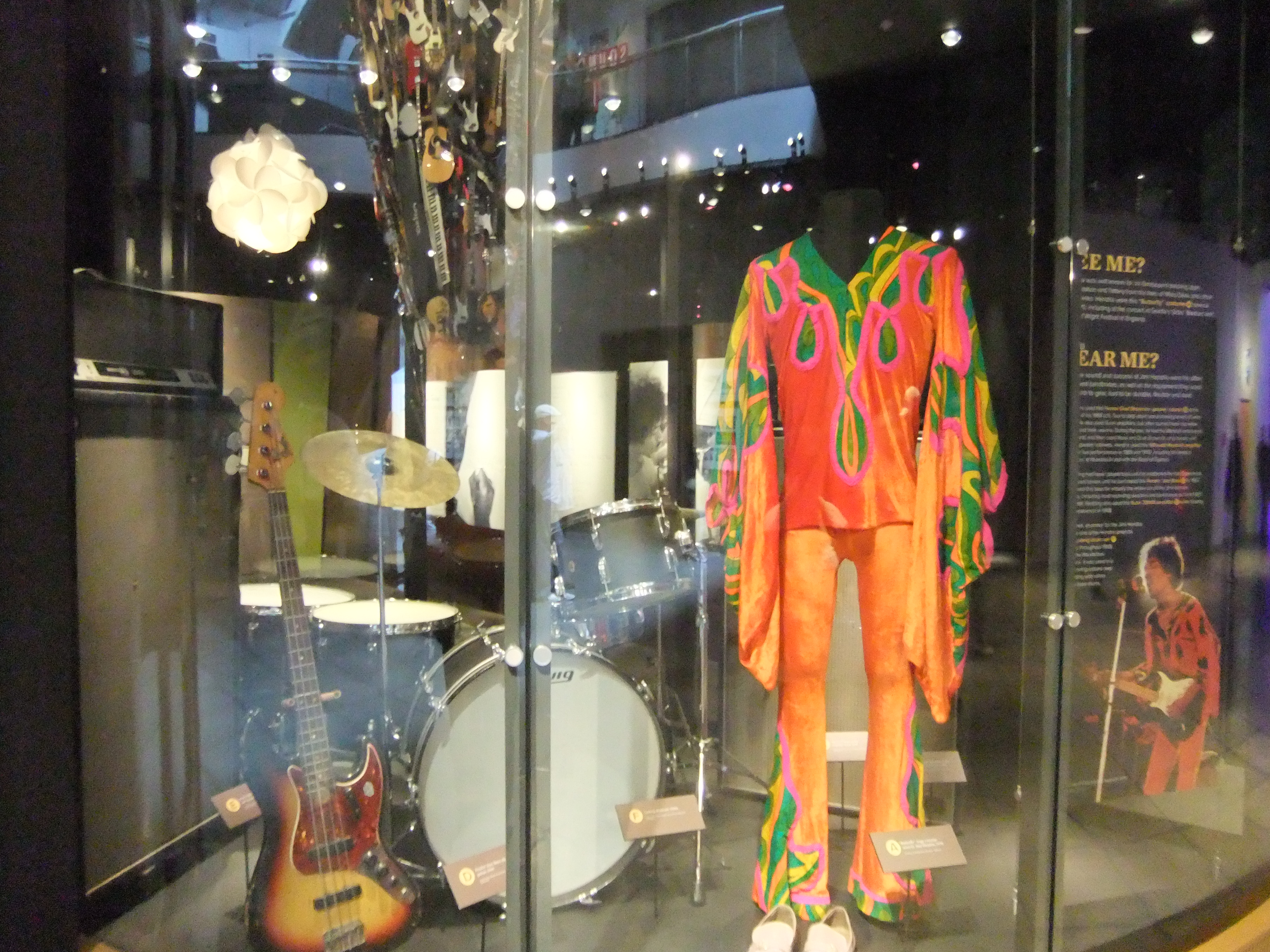 Experience Music Project/Science Fiction Hall of Fame, Seattle.